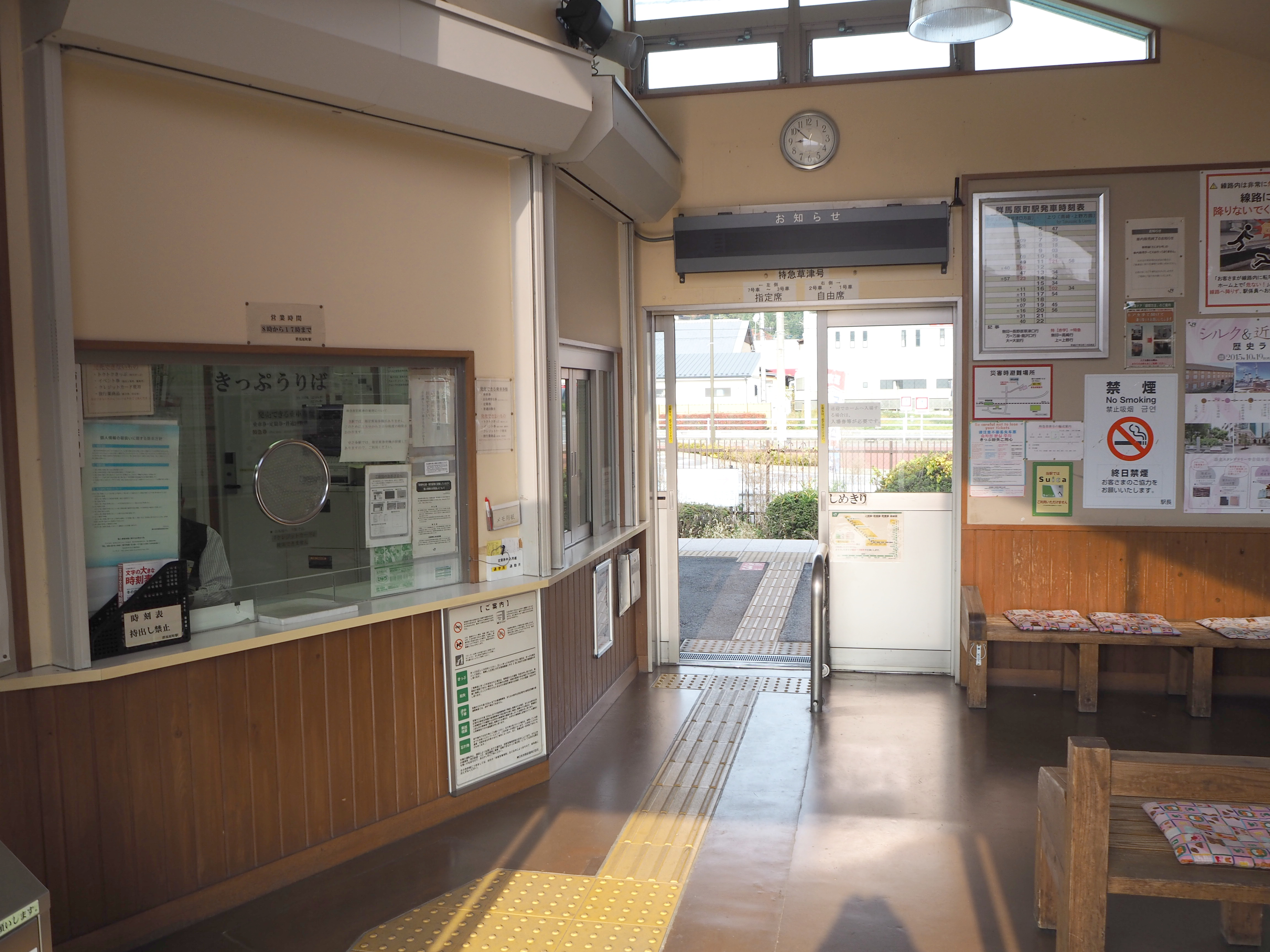 Ticket gate of Gunma-Haramachi Station